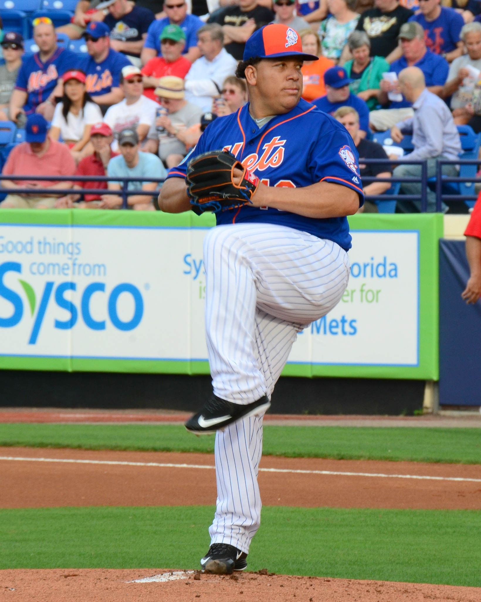 Bartolo Colón pitches for the New York Mets, March 18, 2016.